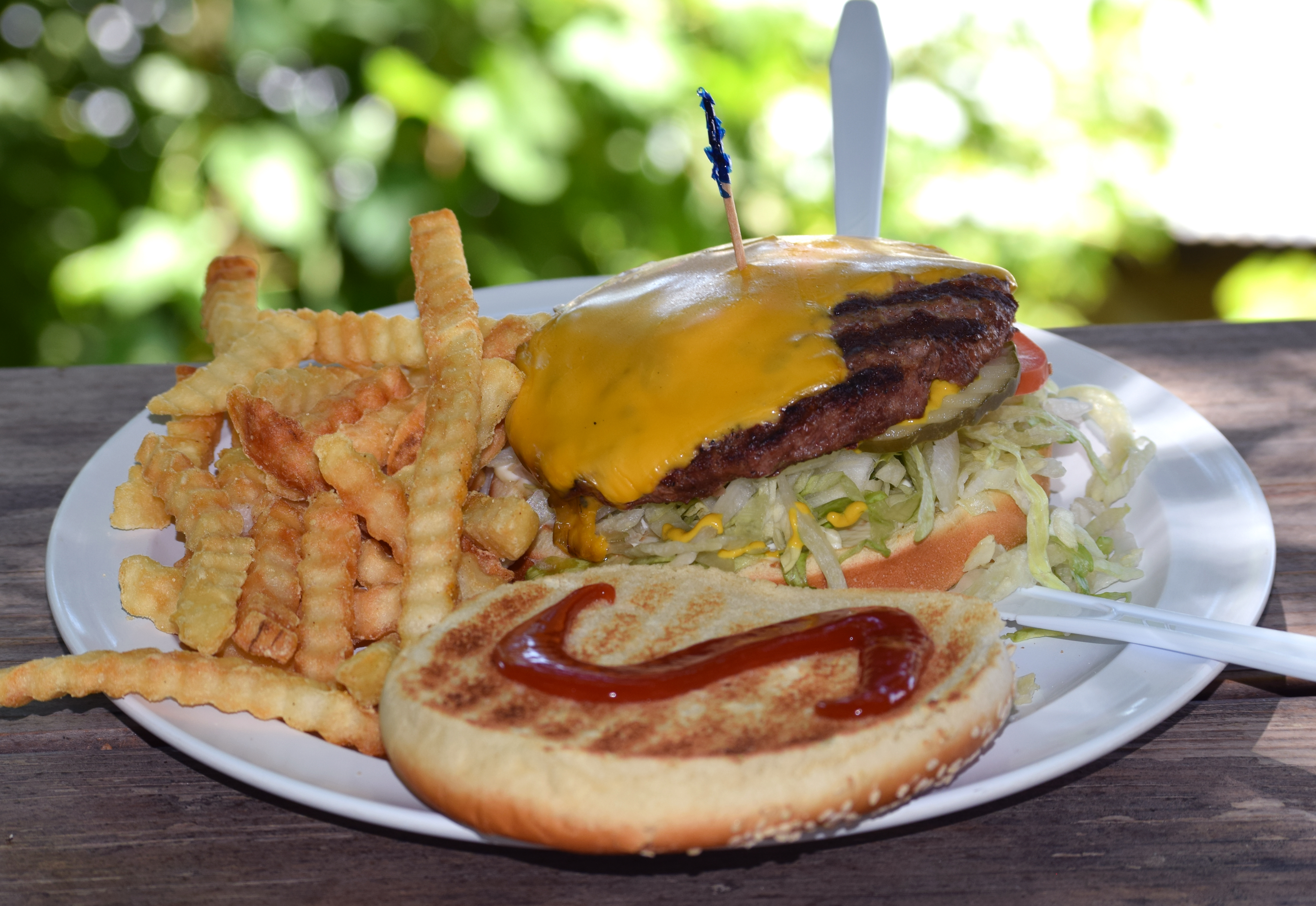 Cheeseburger served with French fries from local Sacramento restaurant, Swabbies Restaurant & Bar on the Sacramento River